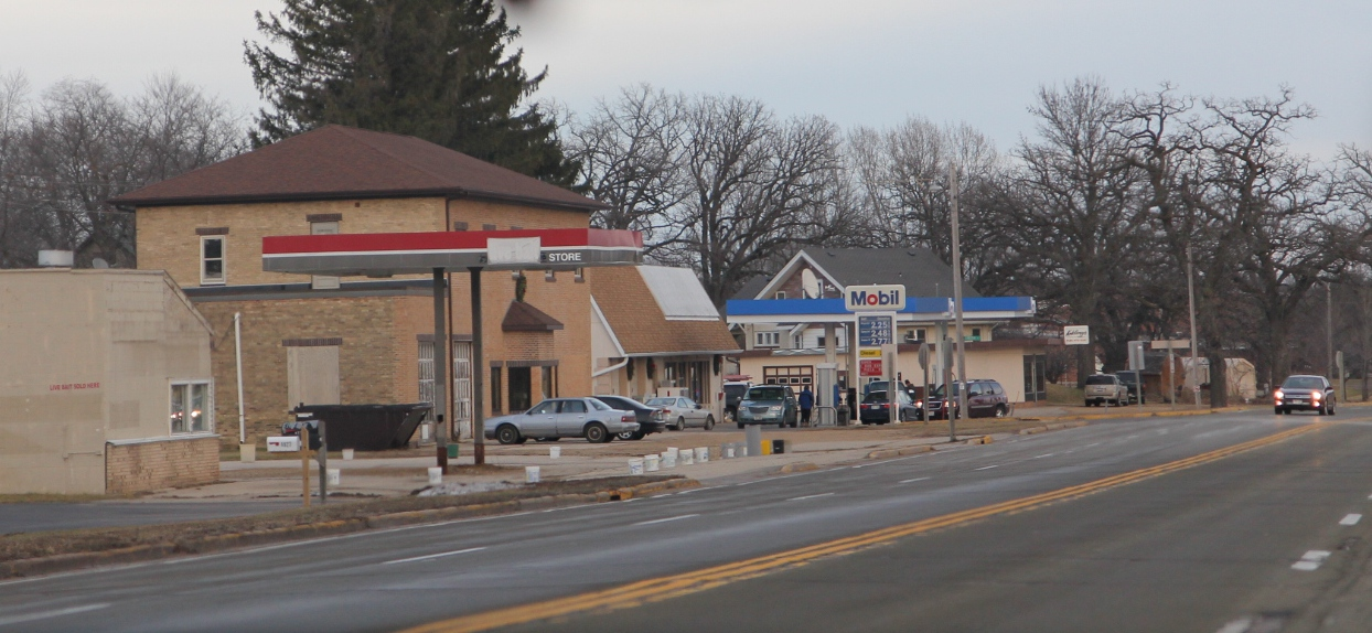 Looking east in downtown Rio, Wisconsin on Wisconsin Highway 16.